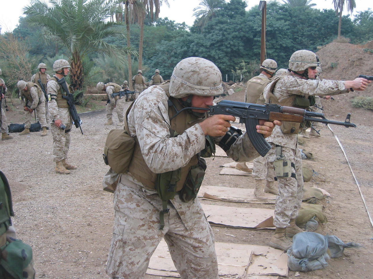 US Marine Lance Corporal Cheema firing the East German MpiKMS-72 variant of the AKM (updated version of AK-47) assault rifle.